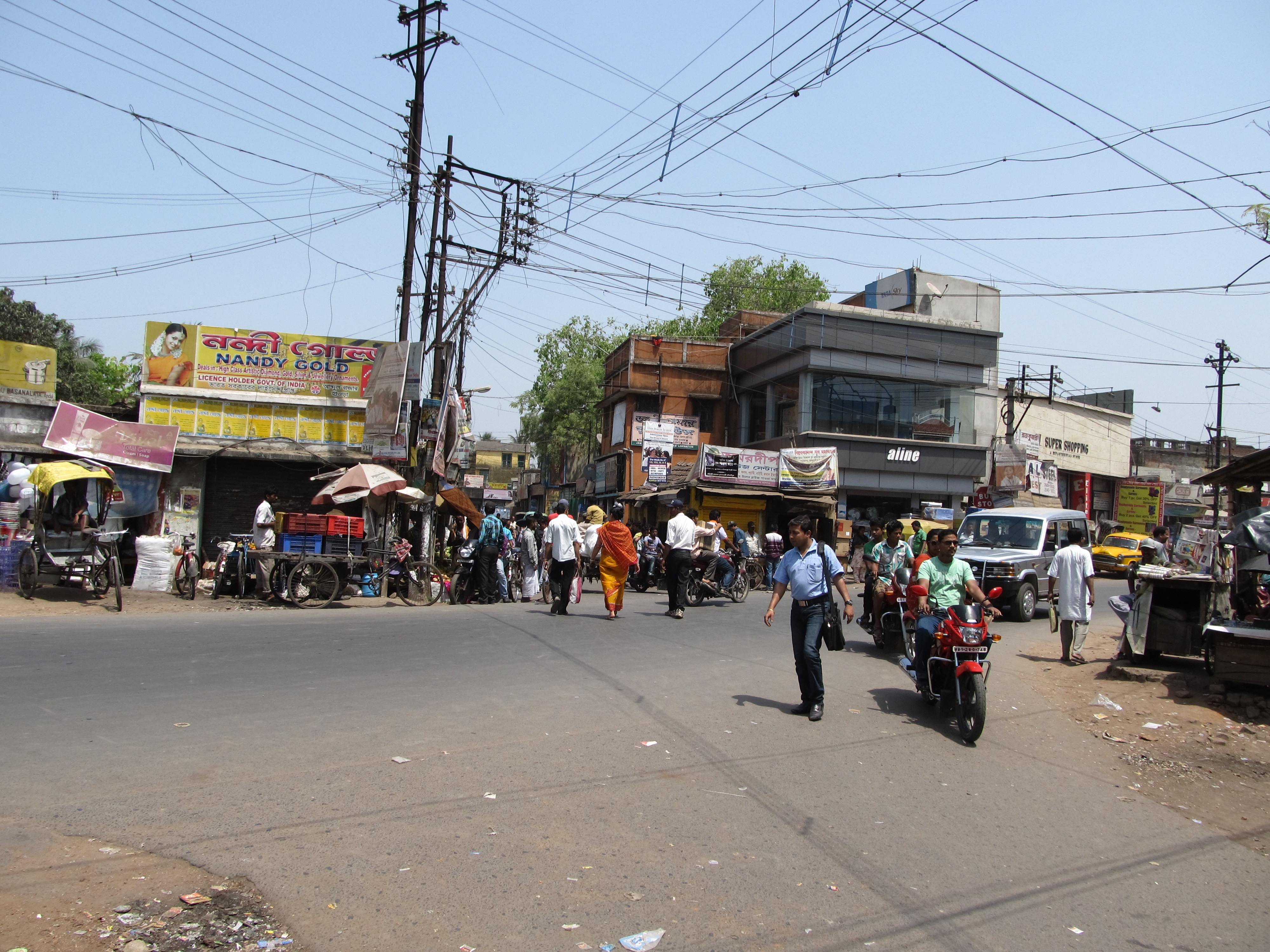 Andul bus stand on Andul road, Howrah.